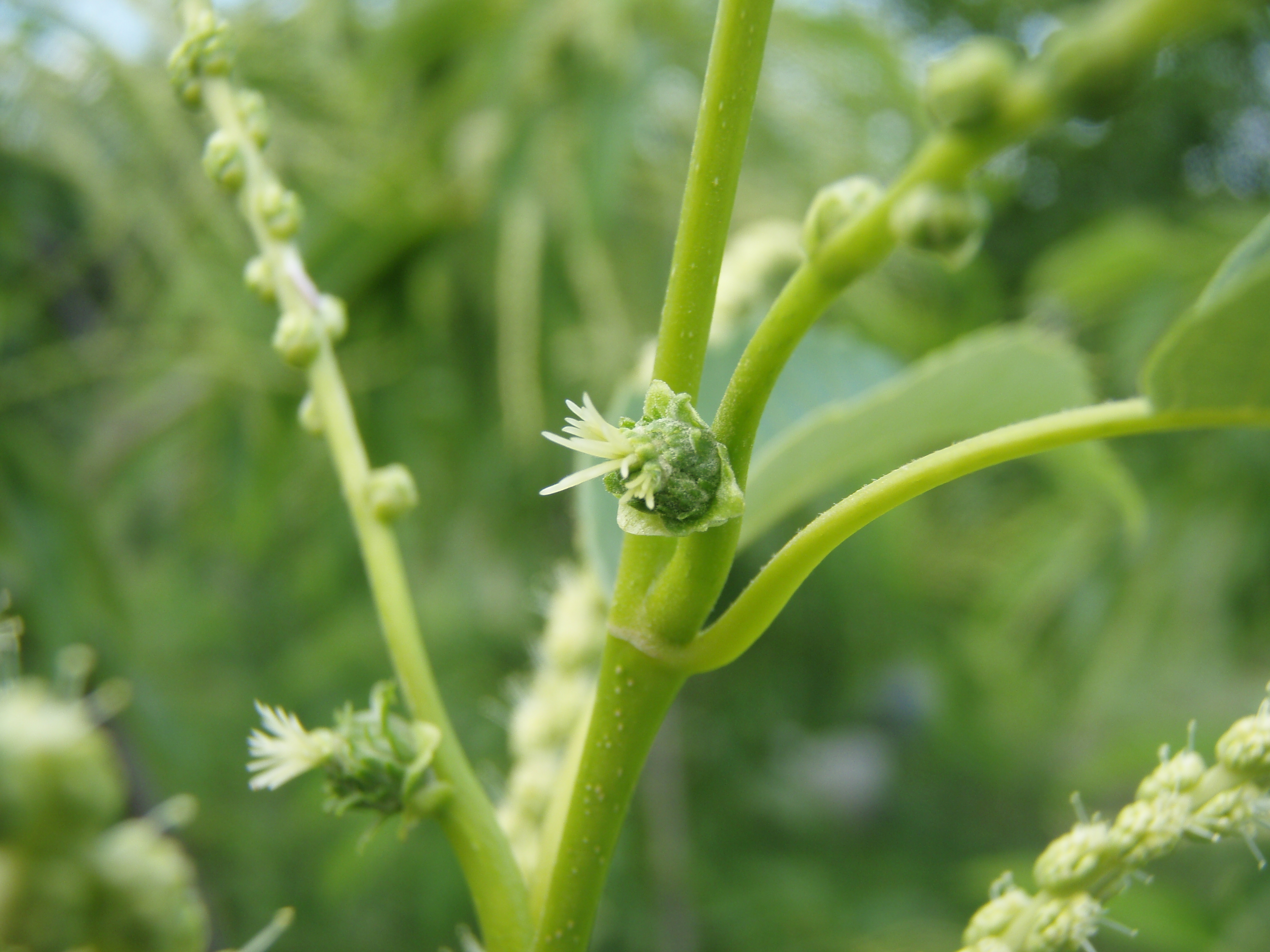 Japanese Chestnut, female flower (Nagano pref. Japan)